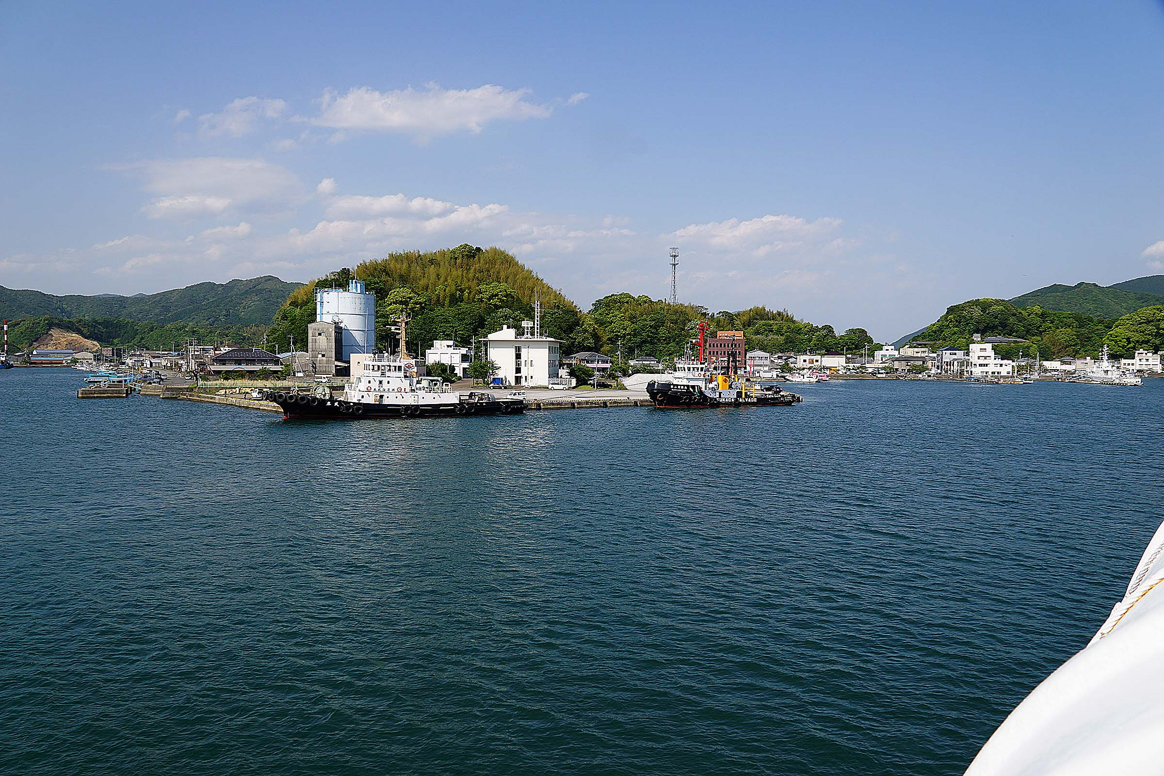 Port of Sukumo / 宿毛港